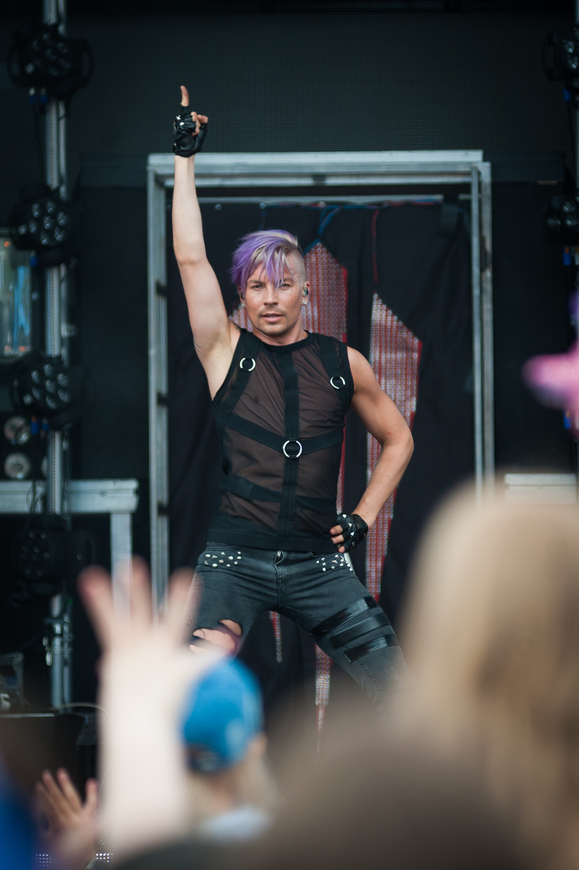 Finnish vocalist Antti Tuisku performing at YleXPop event in Lahti, Finland on the 4th of June, 2016.